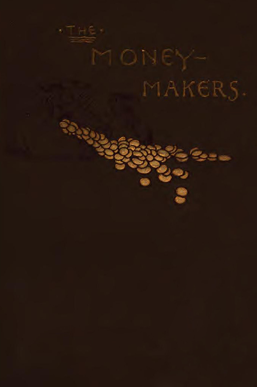 The Money-Makers: A Social Parable by HF Keenan (cover)